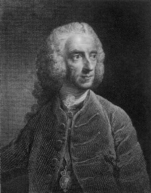 Garter Stephen Martin Leake in a portrait by Thomas Milton. It was made in 1803 after a contemporary portrait by Robert Edge Pine.